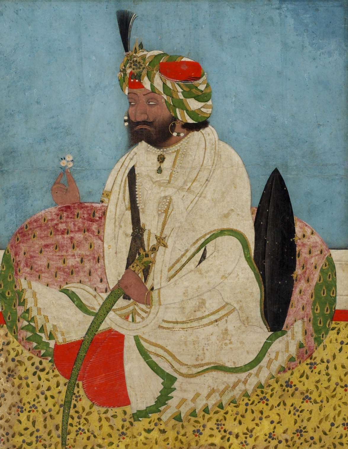 Gulab Singh (1792-1857) was a member of the Hindu Dogra family who served under Maharaja Ranjit Singh, the first Sikh ruler of the Panjab, the region now divided between India and Pakistan. He was a successful ruler and fine soldier, and his talents led him to being created Raja of Jammu in 1822. Following Ranjit Singh's death in 1839, the unity of the kingdom rapidly disintegrated, and Gulab Singh began to misappropriate the revenues of the territories assigned to his care. He finally passed on military intelligence to the British before the first Anglo-Sikh war in 1845-46, and as a reward was given part of the Sikh territory ceded to the British under the terms of the Treaty of Lahore of 1846. The unknown artist of this famous portrait has captured the undoubted wiliness of his subject. The painting was in the collection of Sir William Rothenstein (1872-1945), artist and Rector of the Royal College of Art, and bought by the museum from his widow, Lady Rothenstein, in 1951.